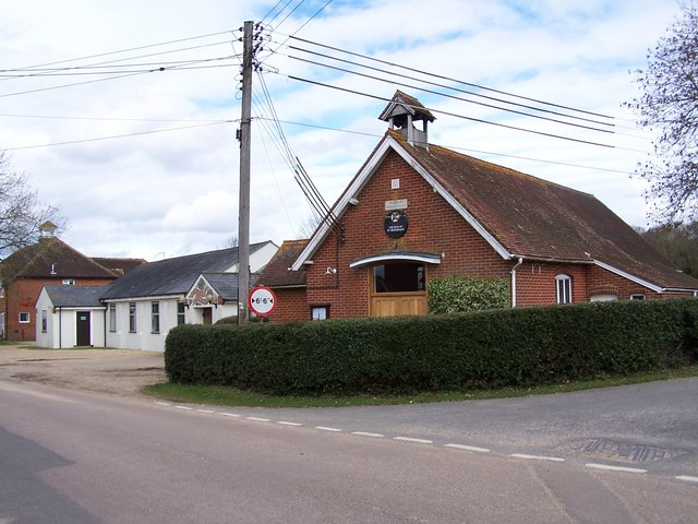 St Boniface's parish church, Woodgreen, Hampshire (right), with the village hall in the background (left)